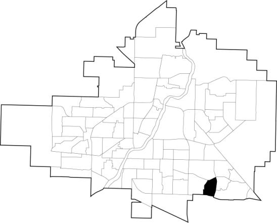 A map showing the location of the Lakeridge neighbourhood in relation to the other neighbourhoods in Saskatoon, Saskatchewan, Canada.